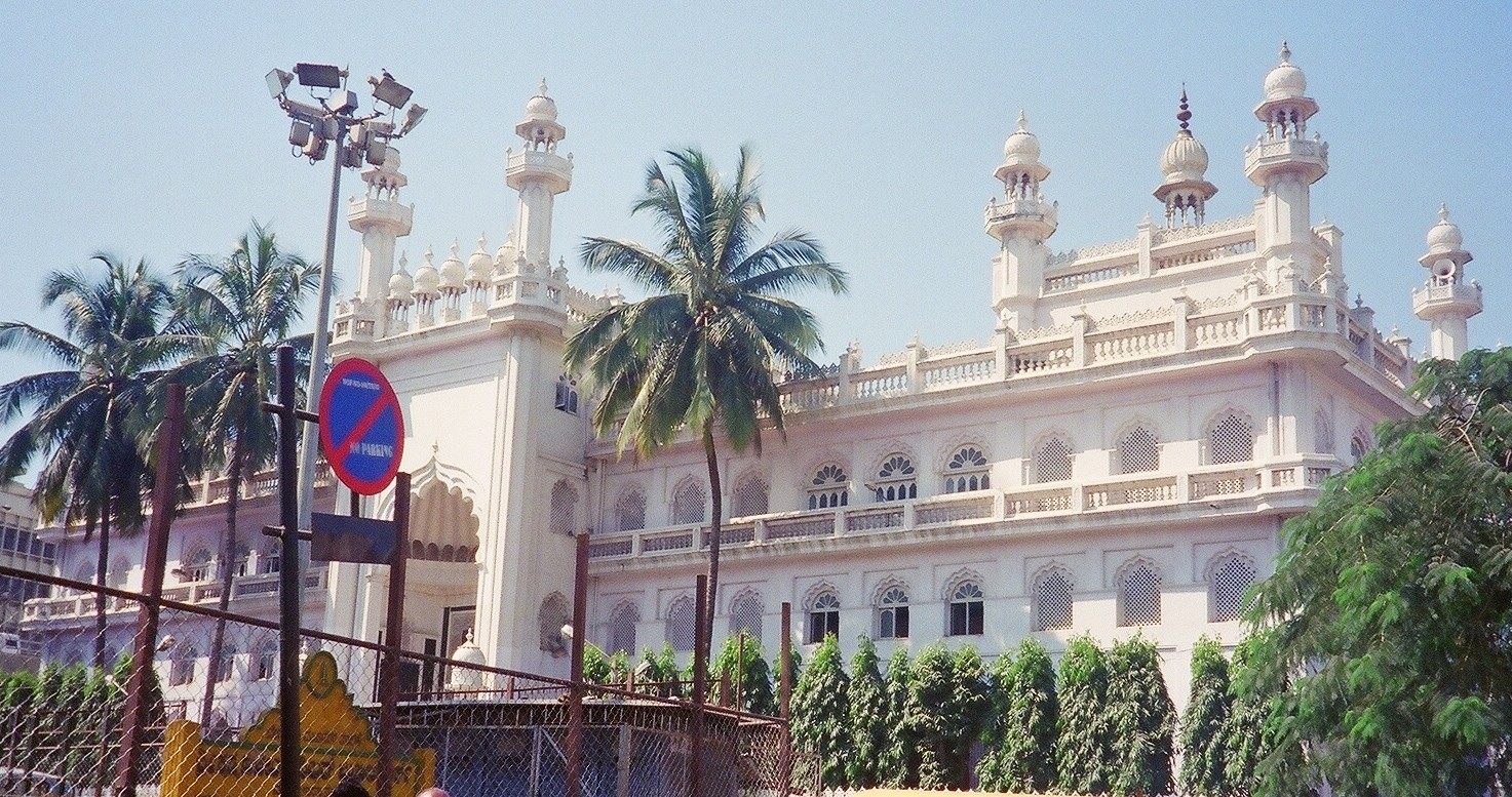 Oldest Mosque in Bangalore in City market